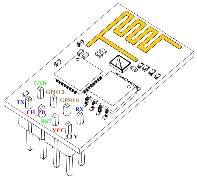 This file describes the I/O PinOut of ESP-8266 (Version-01)